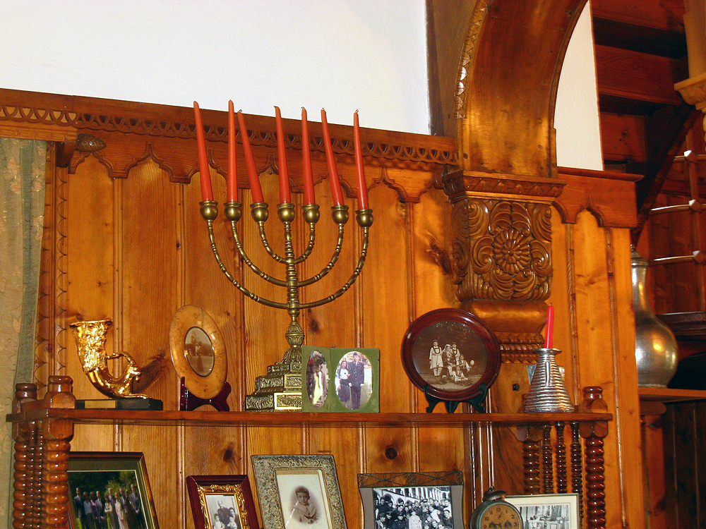 The menorah, presented to King Boris III by the Bugarian Jewish community